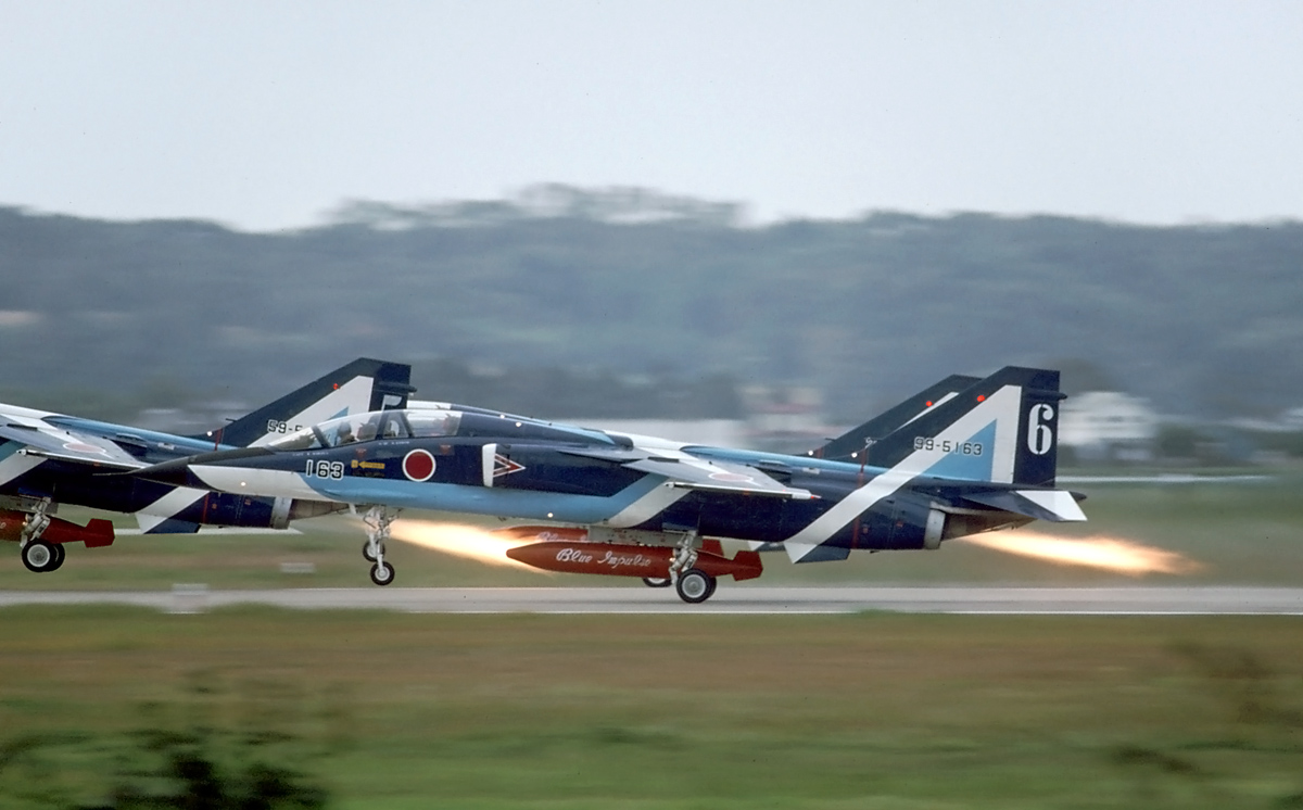 In November 1994 the Japanese demonstration team Blue Impulse was transitioning from T-2s to T-4s. When I visited Matsushima I saw both types. Unfortunately the T-2s flew late in the afternoon after the sun had disappeared.